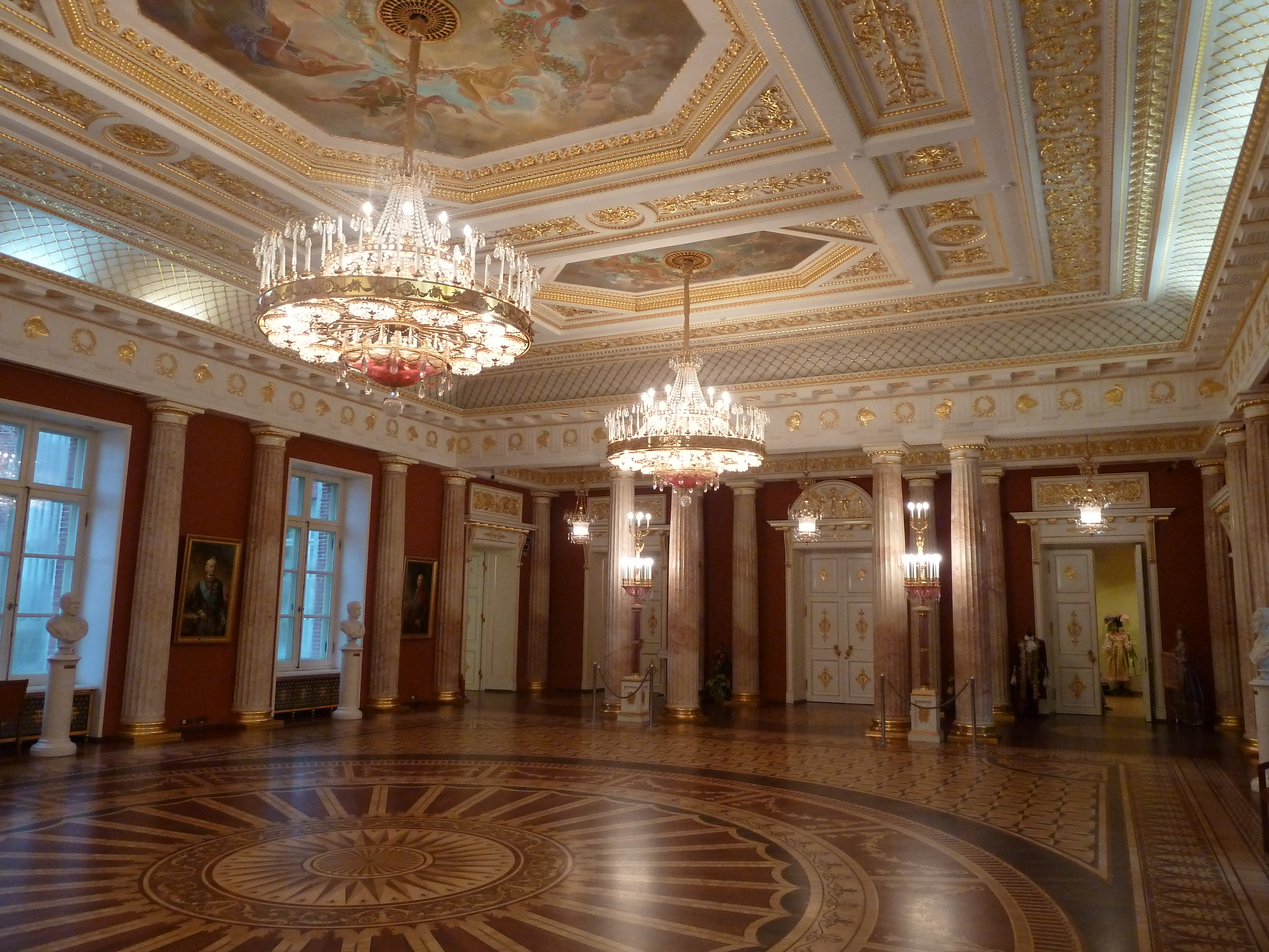 Interiors of Tsaritsyno, Moscow